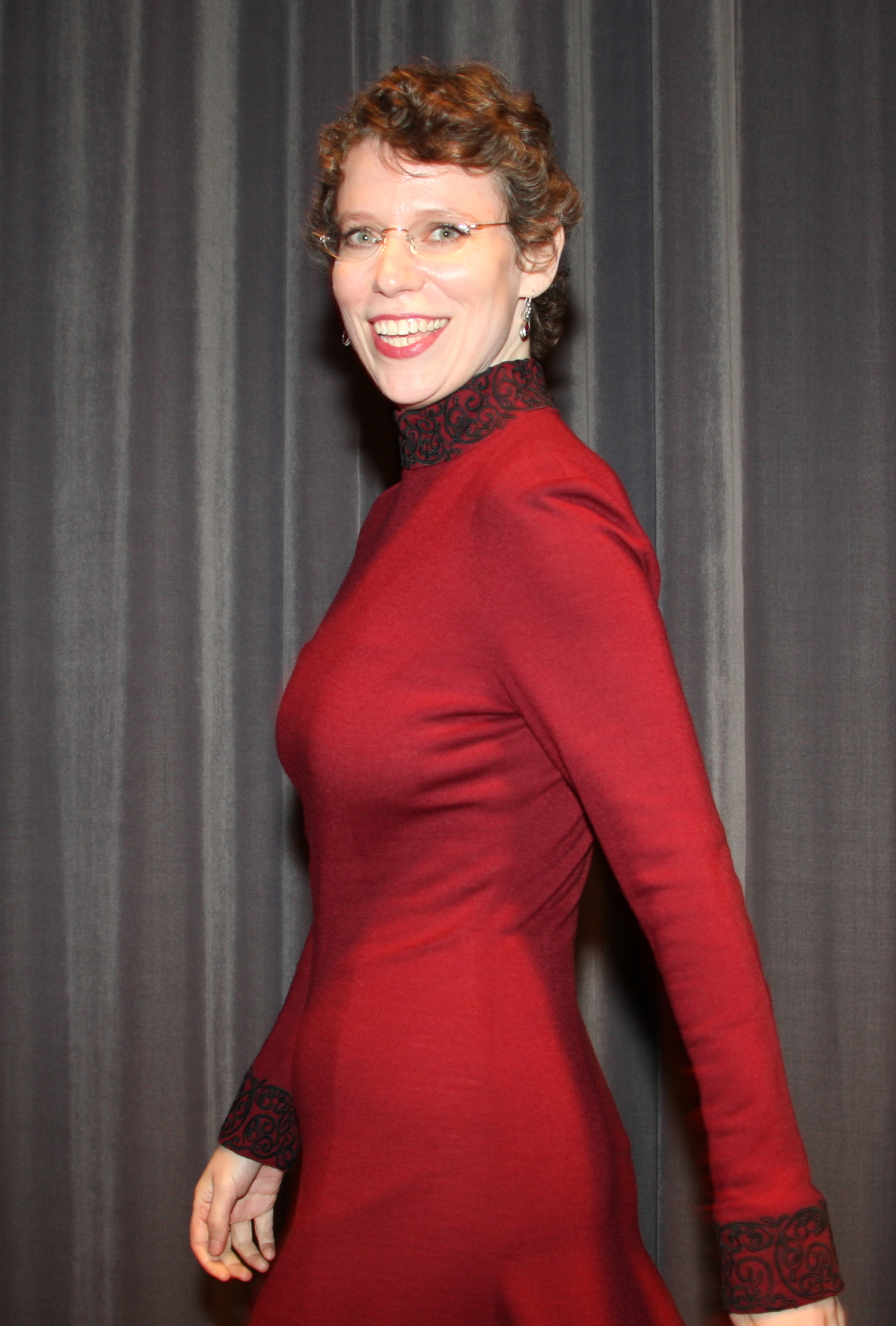 Photo from the world premiere of Sita Sings the Blues at the Berlinale in 2008